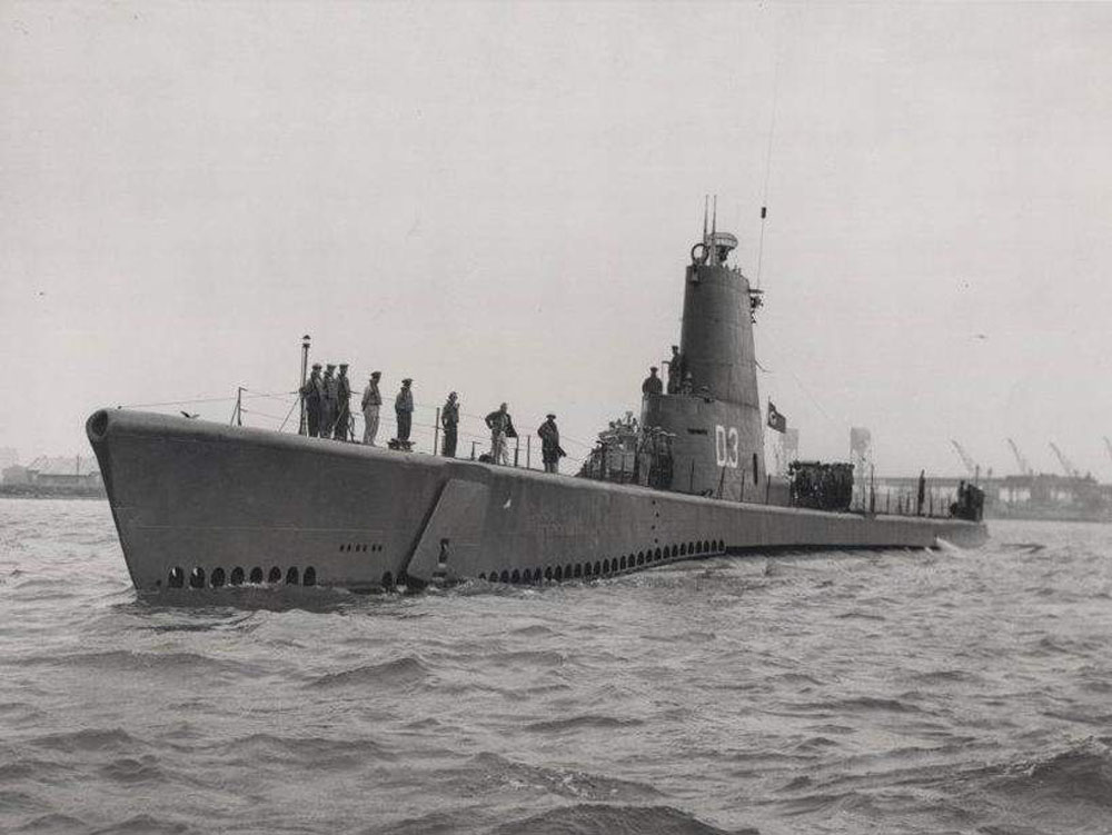 Starboard bow view of Gür (D-3) after snorkel overhaul off the Philadelphia Navy Yard on 3 Sept 1954.